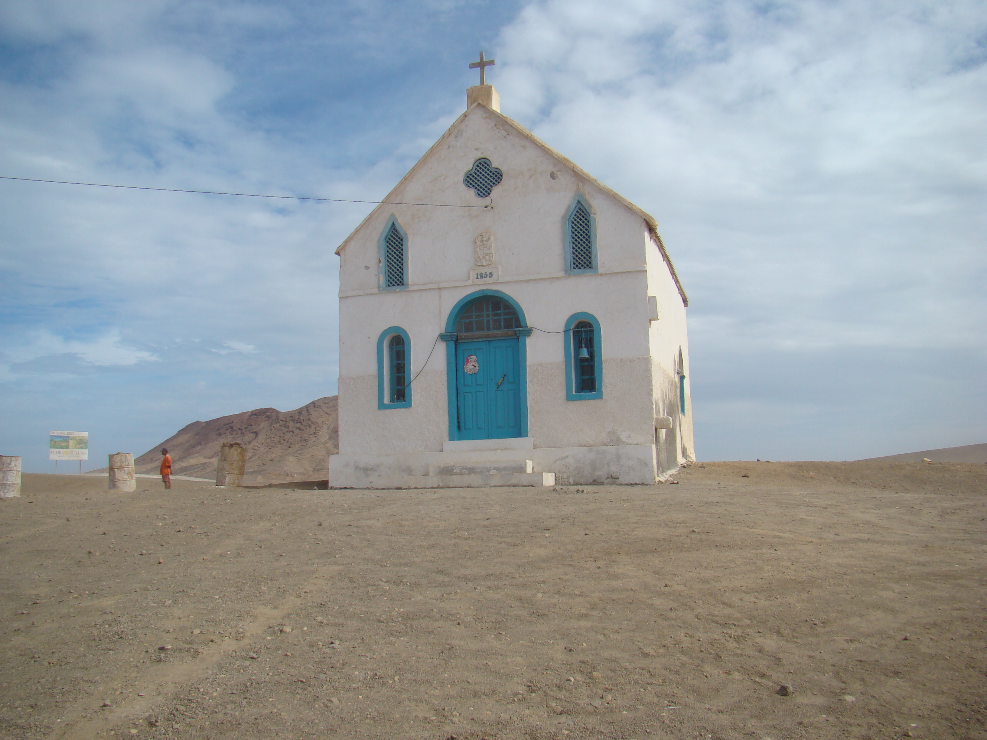 Pedra De Lume (Sal/Cape Verde). Church